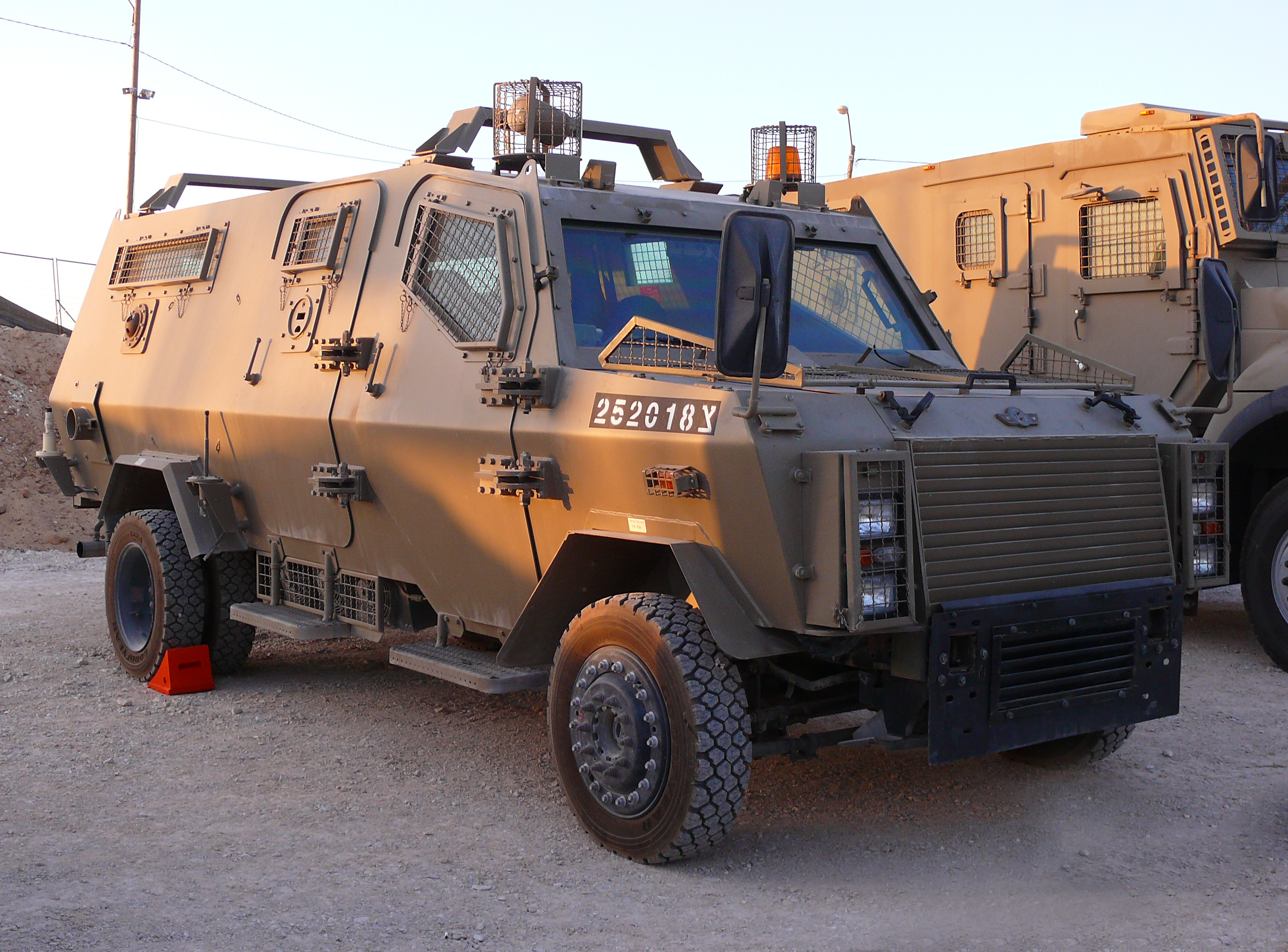 Wolf ("Zeev") Armored Vehicle of the Israel Defense Forces